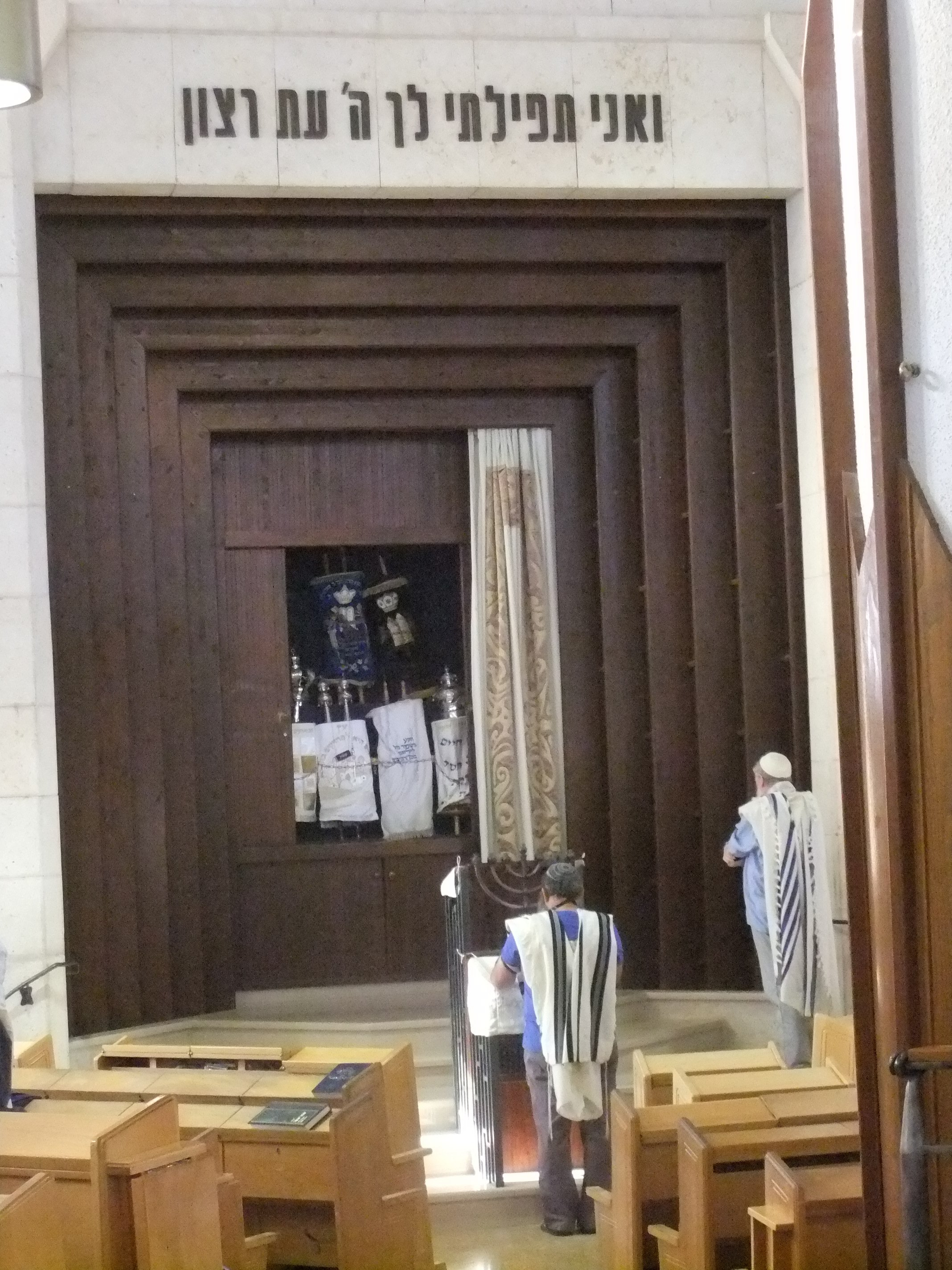 The open Torah ark in the synagouge of Ofra during teh Avinu Makenu prayer. The Torah scrolls are covered with the white high Holiday coats and the Parochet is a white high holiday Parochet.